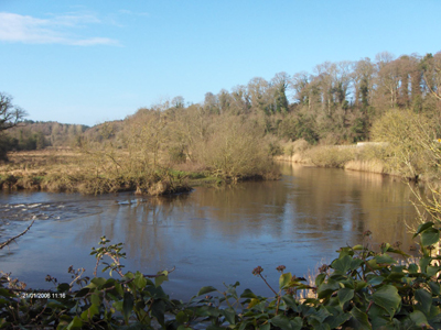 Boyne River